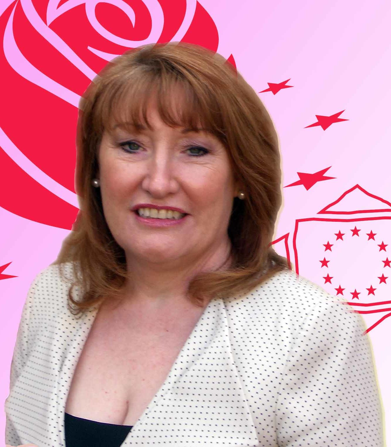 Glenis Willmott